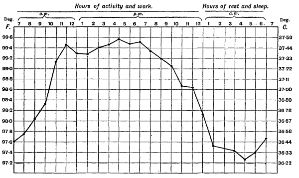 Chart showing diurnal variation in body temperature, ranging from about 37.5° C. from 10 A.M. to 6 P.M., and falling to about 36.3° C. Uploader: user:RHorning